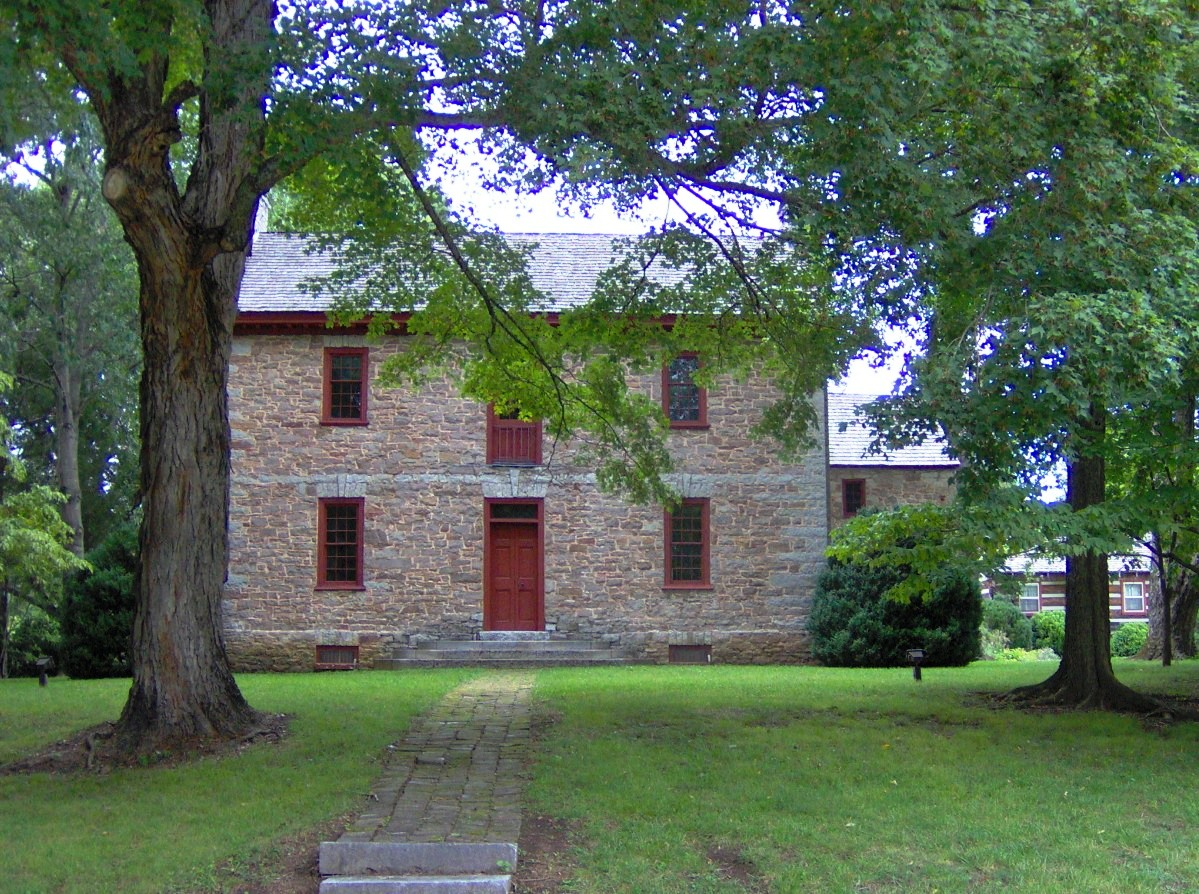 The Ramsey House, home of Col. Francis Ramsey and birthplace of historian J.G.M. Ramsey, in Knoxville, Tennessee, USA.